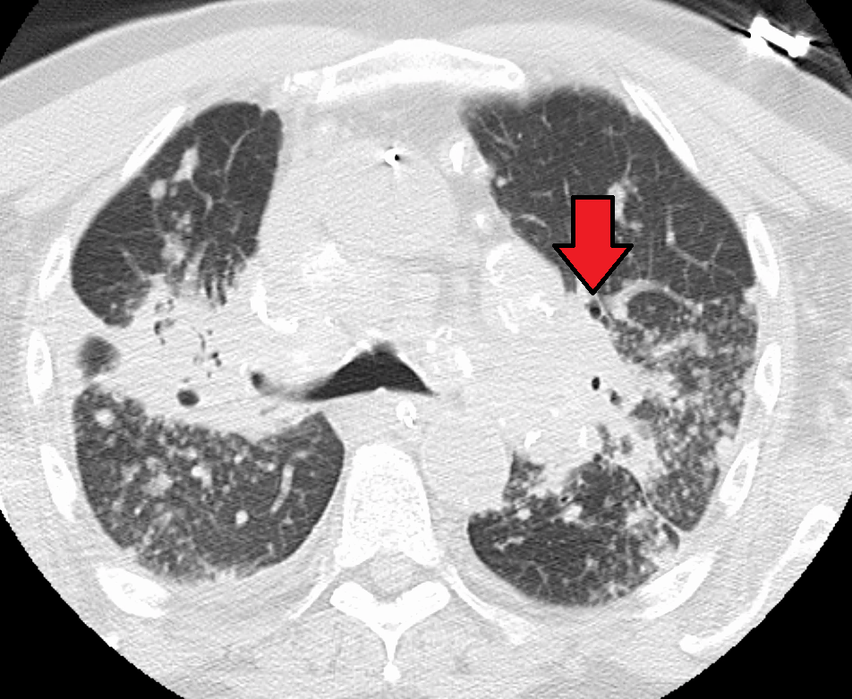 Pulmonary sarcoidosis with arrow pointing out the hilar adenopathy. Also diffuse interstitial disease